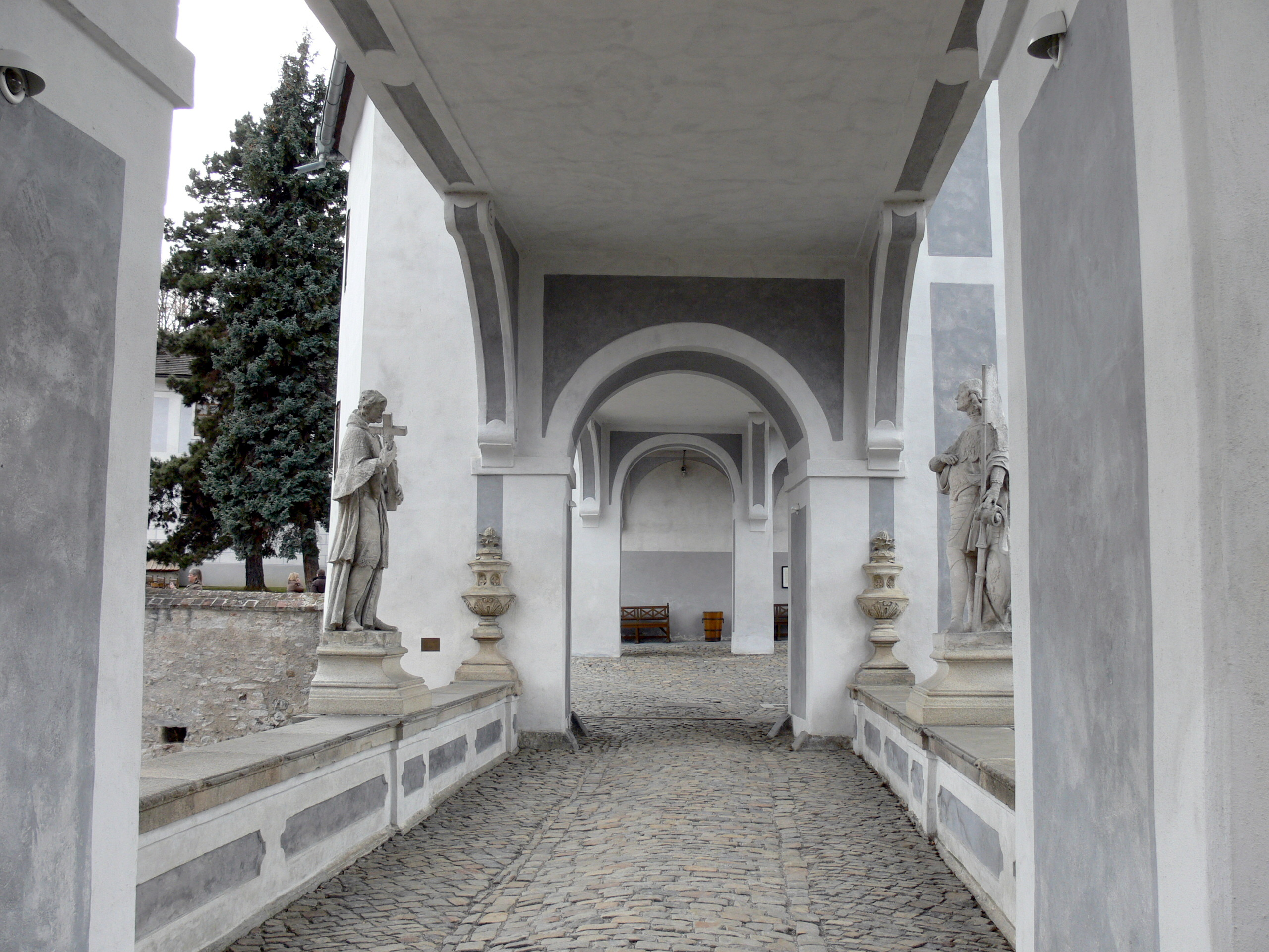 Cloak bridge ( 1777 ) crossing the ditch of the upper castle in Český Krumlov.